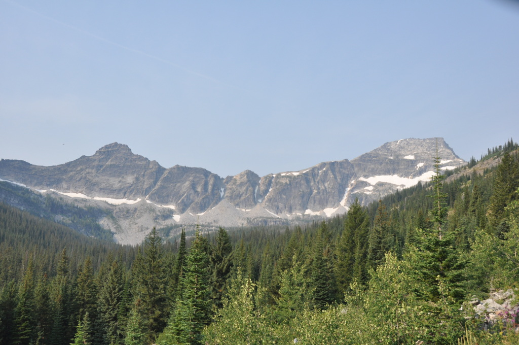 The Lonesome Bachelor (left) and El Capitan (right), Bitterroot Range, Montana. View from the east near Little Rock Creek Lake.